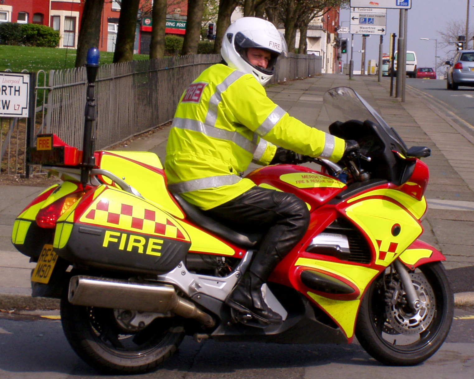 Merseyside Fire and Rescue Motorbike